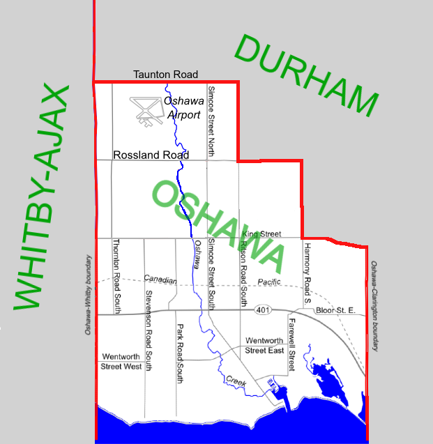 Map of the Oshawa electoral district (1996-2003)